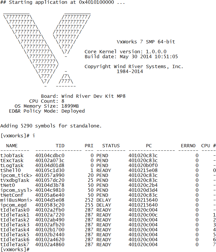 This file shows the screenshot for VxWorks 7